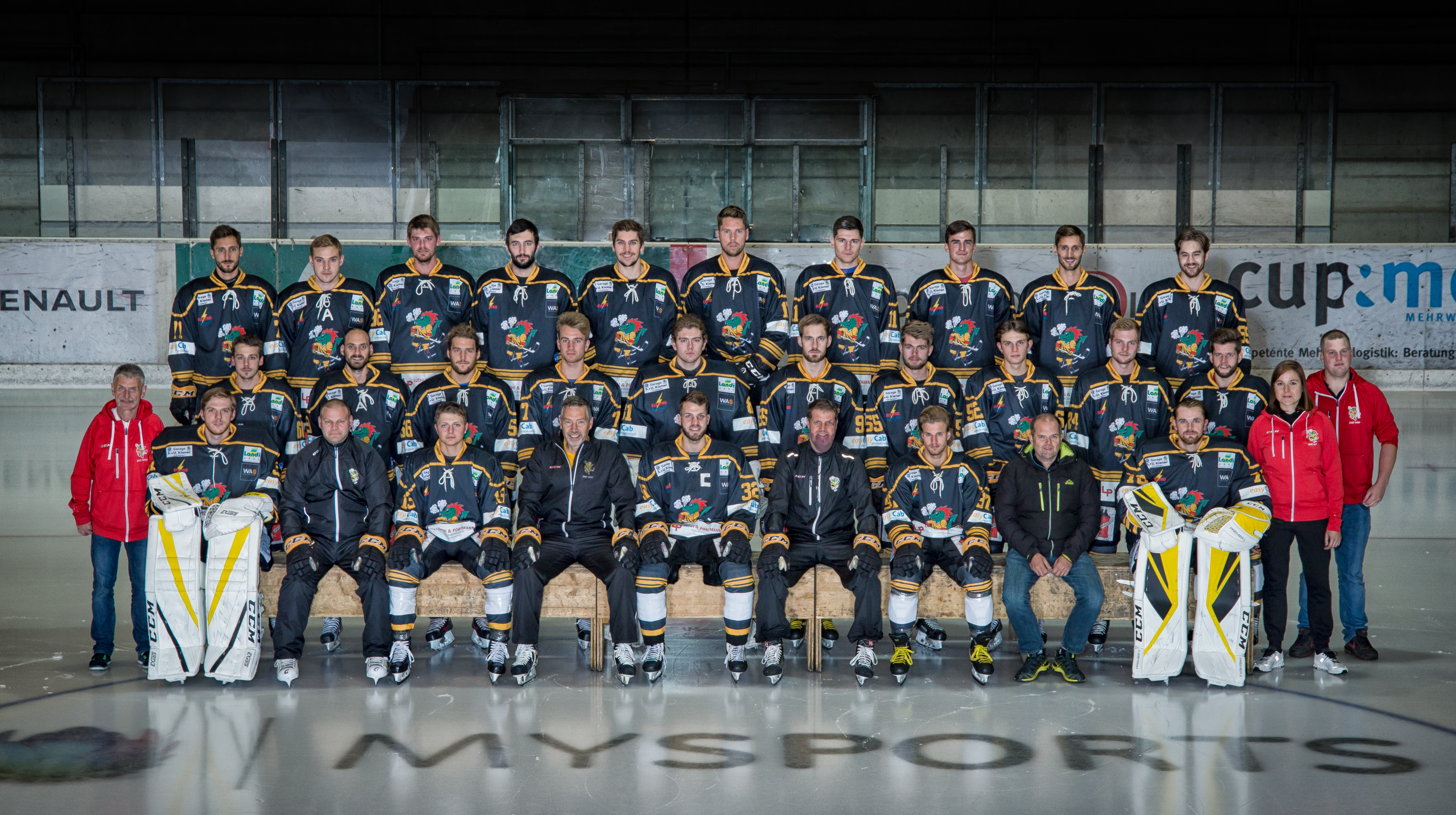 EHC Wiki-Münsingen Team Photo 2018-19